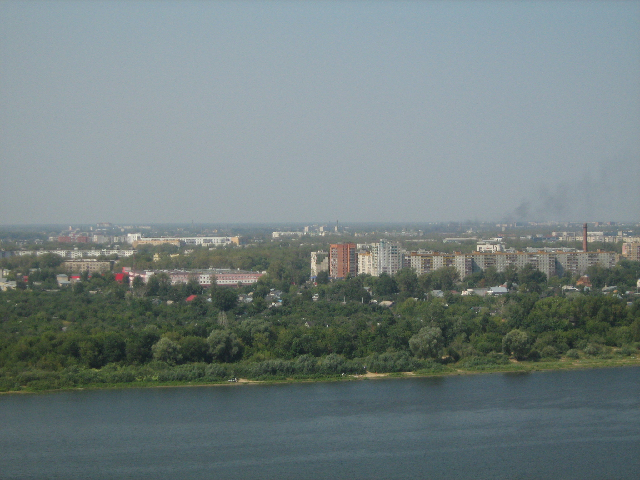 The left (low) side of Oka in Nizhny Novgorod (Leninsky District) seen from the Switzerland Park on the right (high) side of the river.